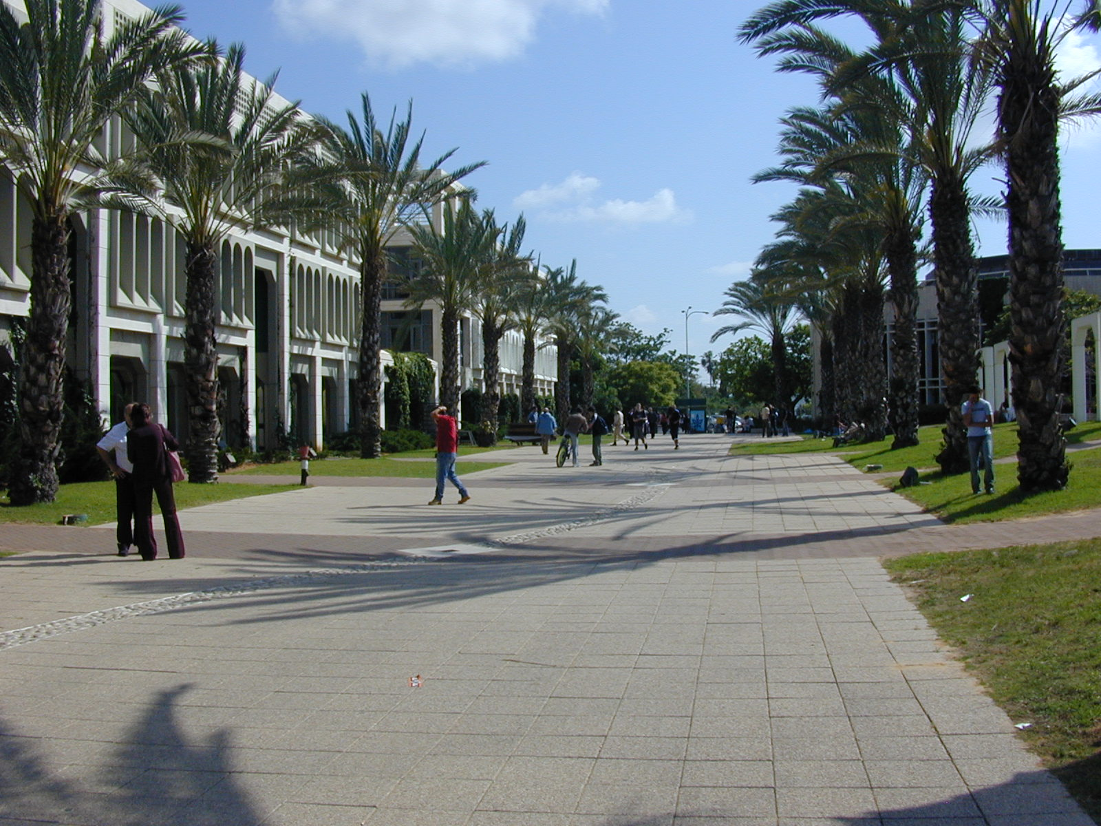 Leigh Engineering Faculty Boulevard, Tel Aviv University Photographed by Ido Perelmutter (Ido50).